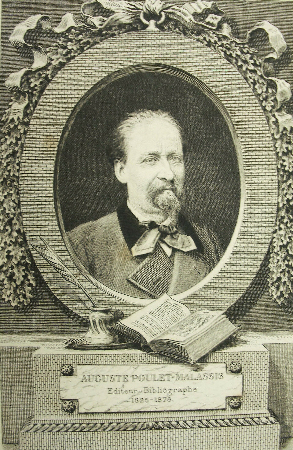 Portrait of Auguste Poulet-Malassis (1825-1878)